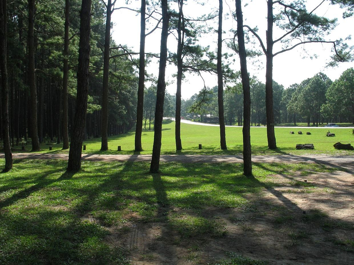 Pine forests along road number 108 in Chiang Mai province; between Hot and Mae Sariang, near the intersection towards Omkoi.